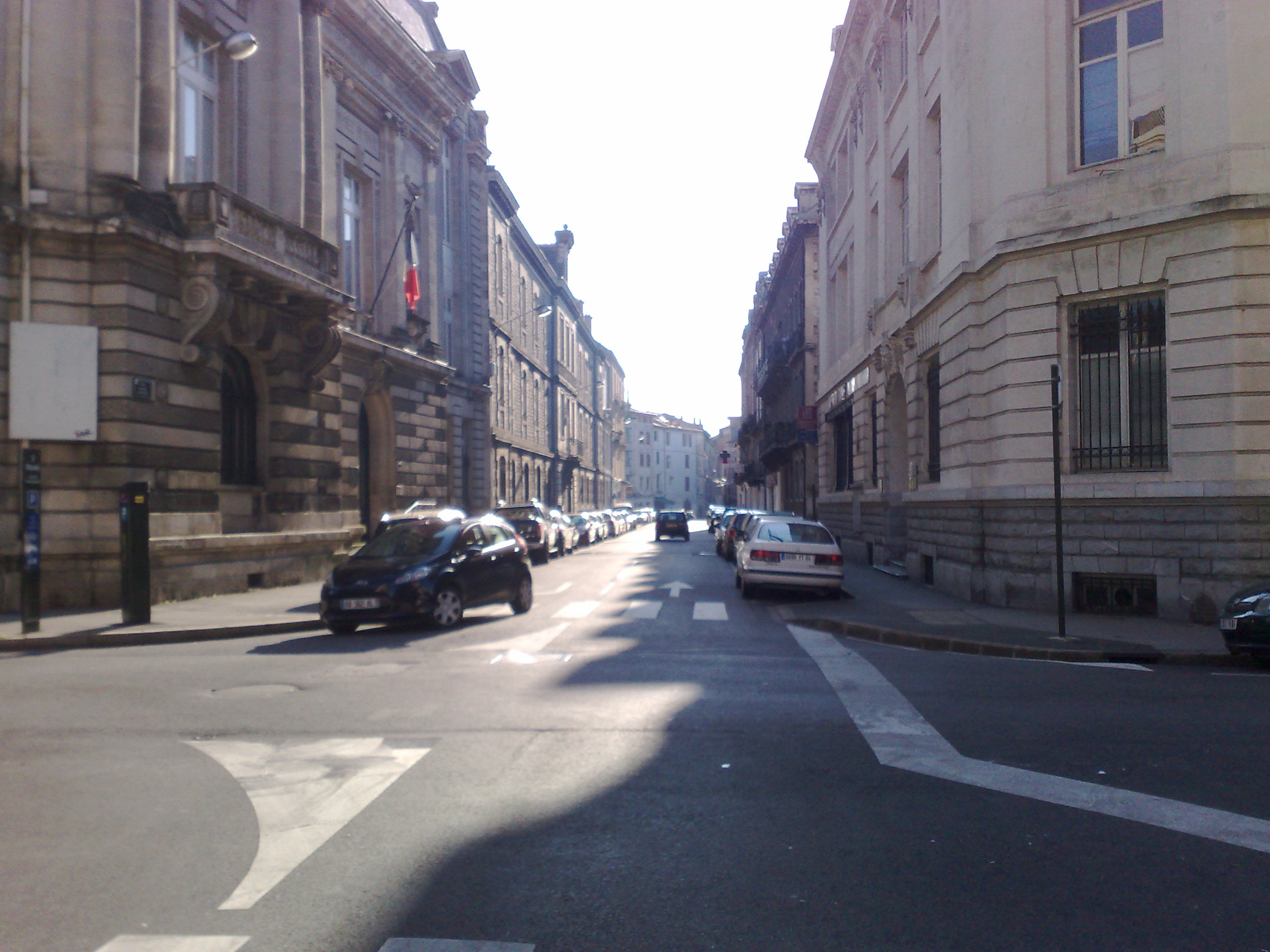 Jacques Laffitte street in Baiona Ttipia (Little Bayonne) area of Baiona/Bayonne, Labourd, Basque Country. On the left you can see the Bonnat Museum.